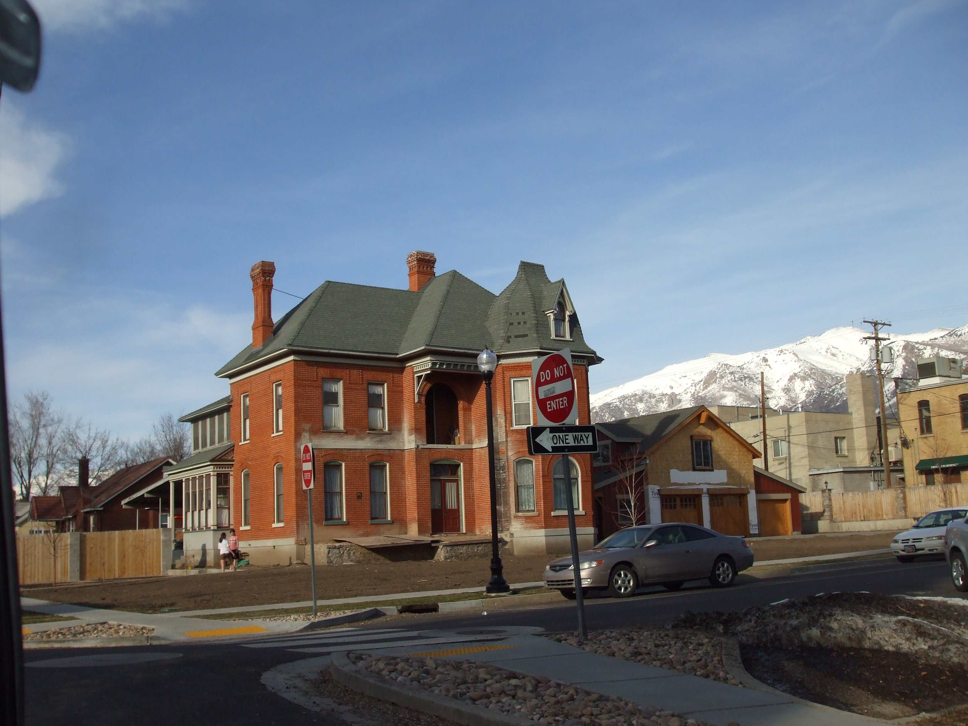 The John George Moroni Barnes House, a historic home in Kaysville, Utah, United States.